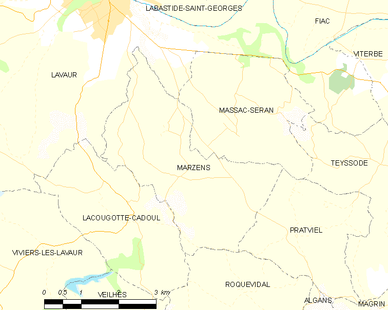 Map of French municipality Marzens